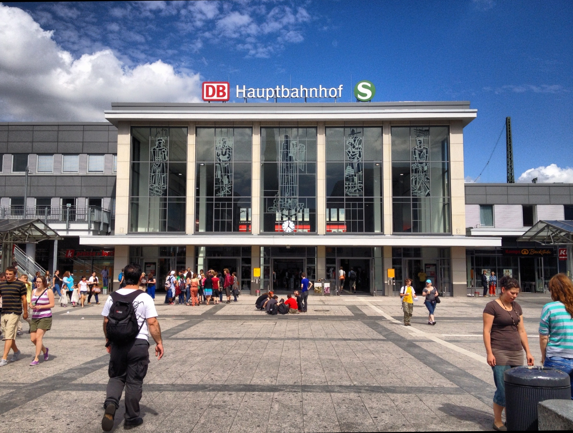 Main station Dortmund